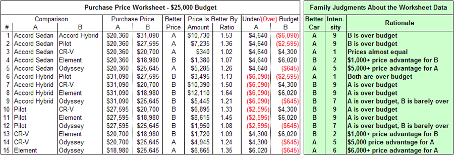 Part of a series of images to illustrate an article on the Analytic Hierarchy Process